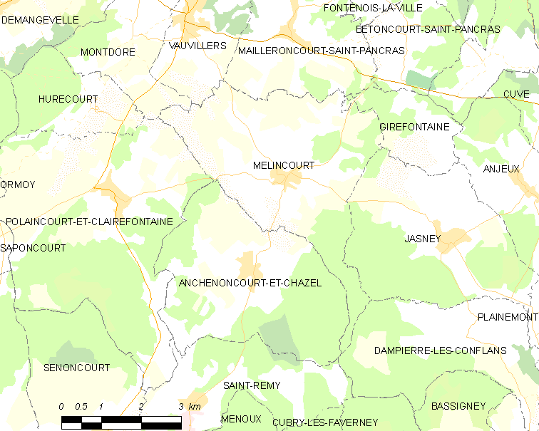 Map of French municipality